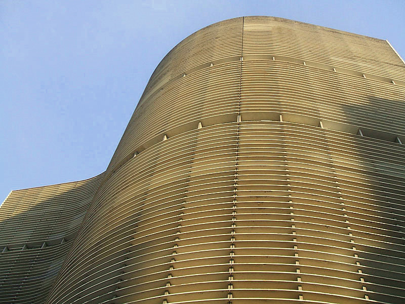 Copan Building, São Paulo, Brazil